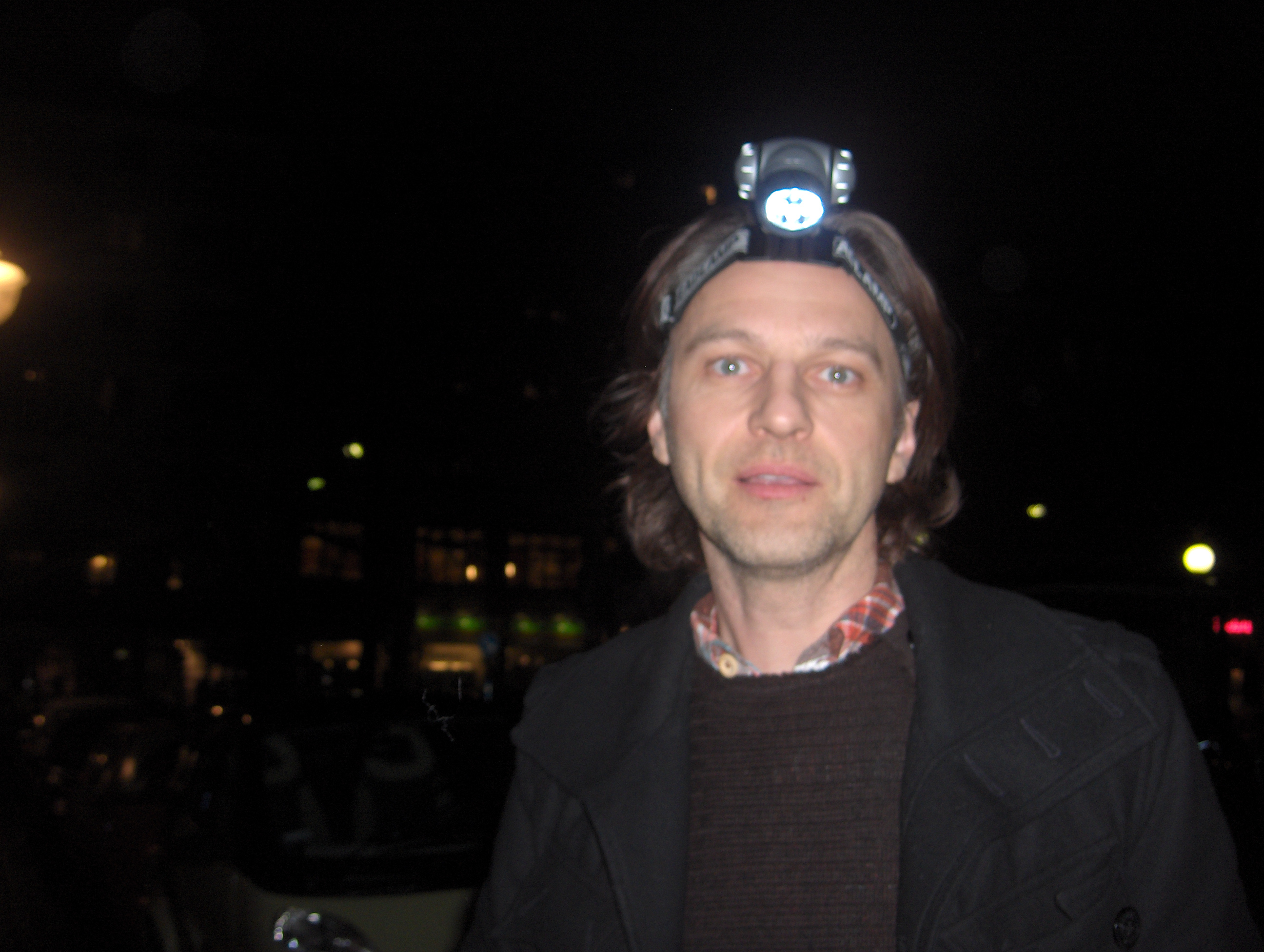 Actor Björn Kjellman reading Harry and the Deathly Hallows in Swedish, in Stockholm, at the release of the book in Swedish